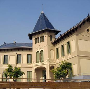 Can Roig y Torres